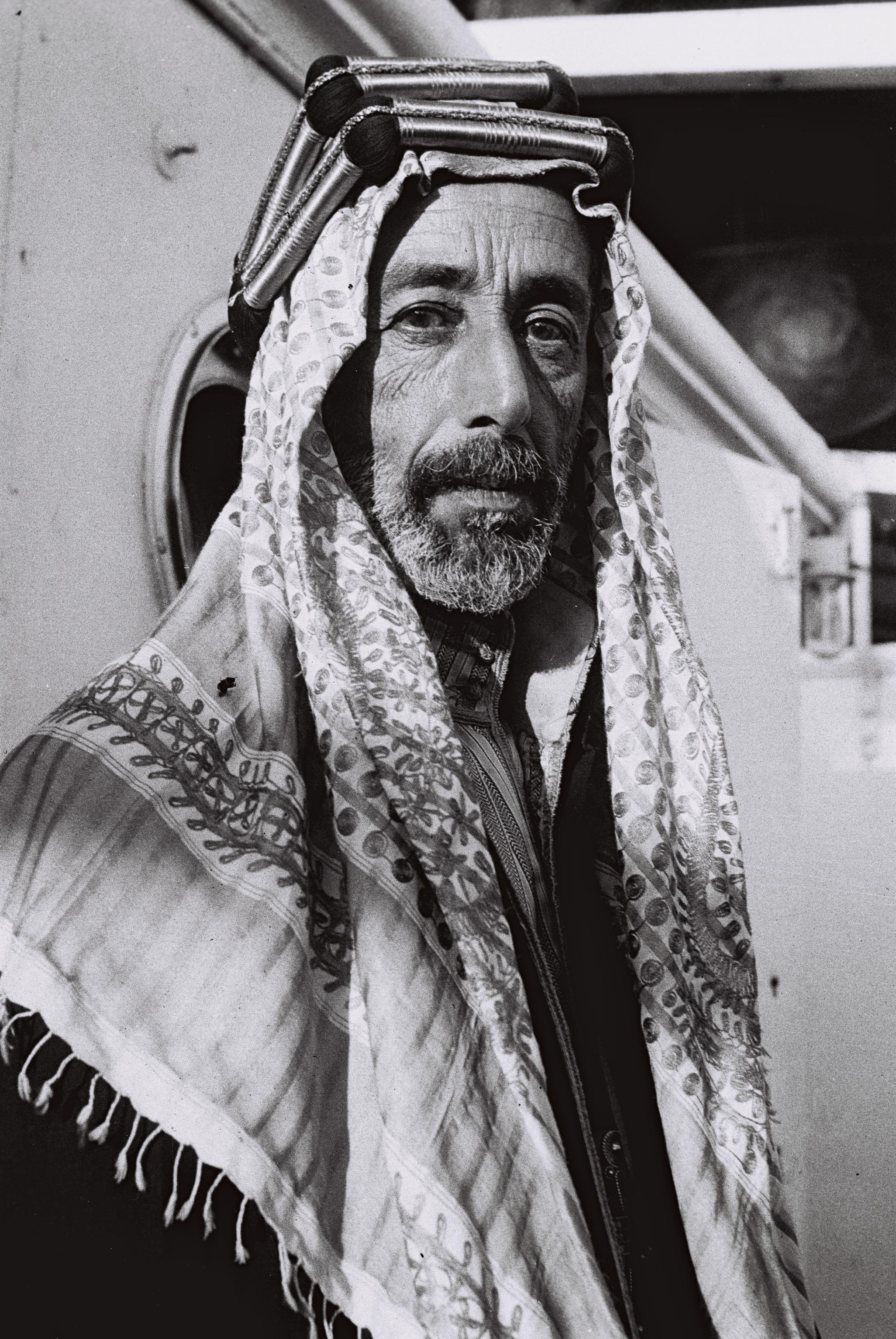 EXILED KING ALI OF HEJAZ PHOTOGRAPHED ABOARD A SHIP ANCHORING OFF OF JAFFA, AFTER THE FUNERAL OF HIS BROTHER KING FEISAL IN BAGDAD. המלך עלי מחג'אז, צולם על סיפון האוניה, לאחר שהשתתף בהלווית אחיו המלך פייסל בבגדד, עיראק.